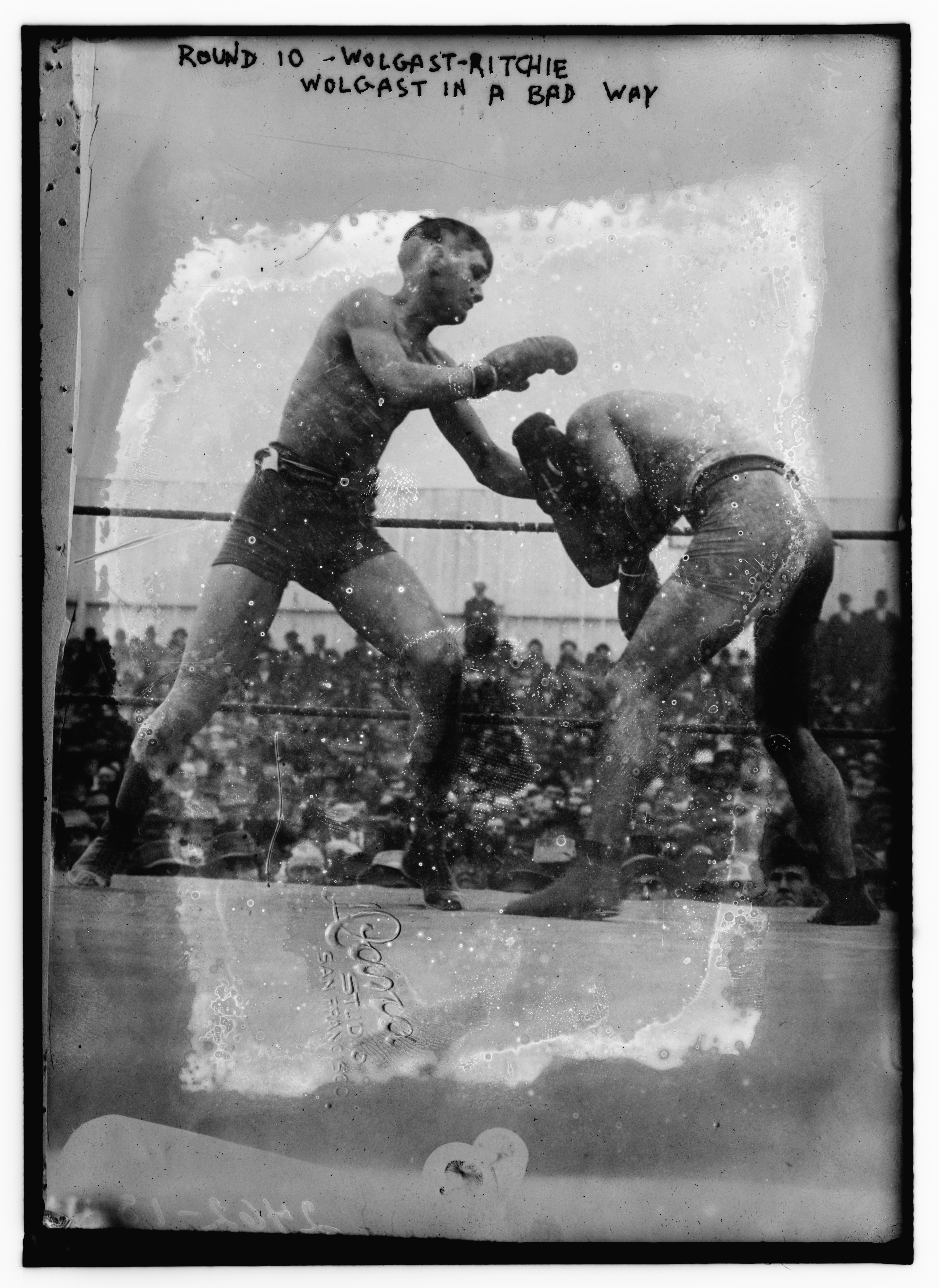 Photo of Willie Ritchie landing a blow on Ad Wolgast. Caption reads "Wolgast in a bad way".